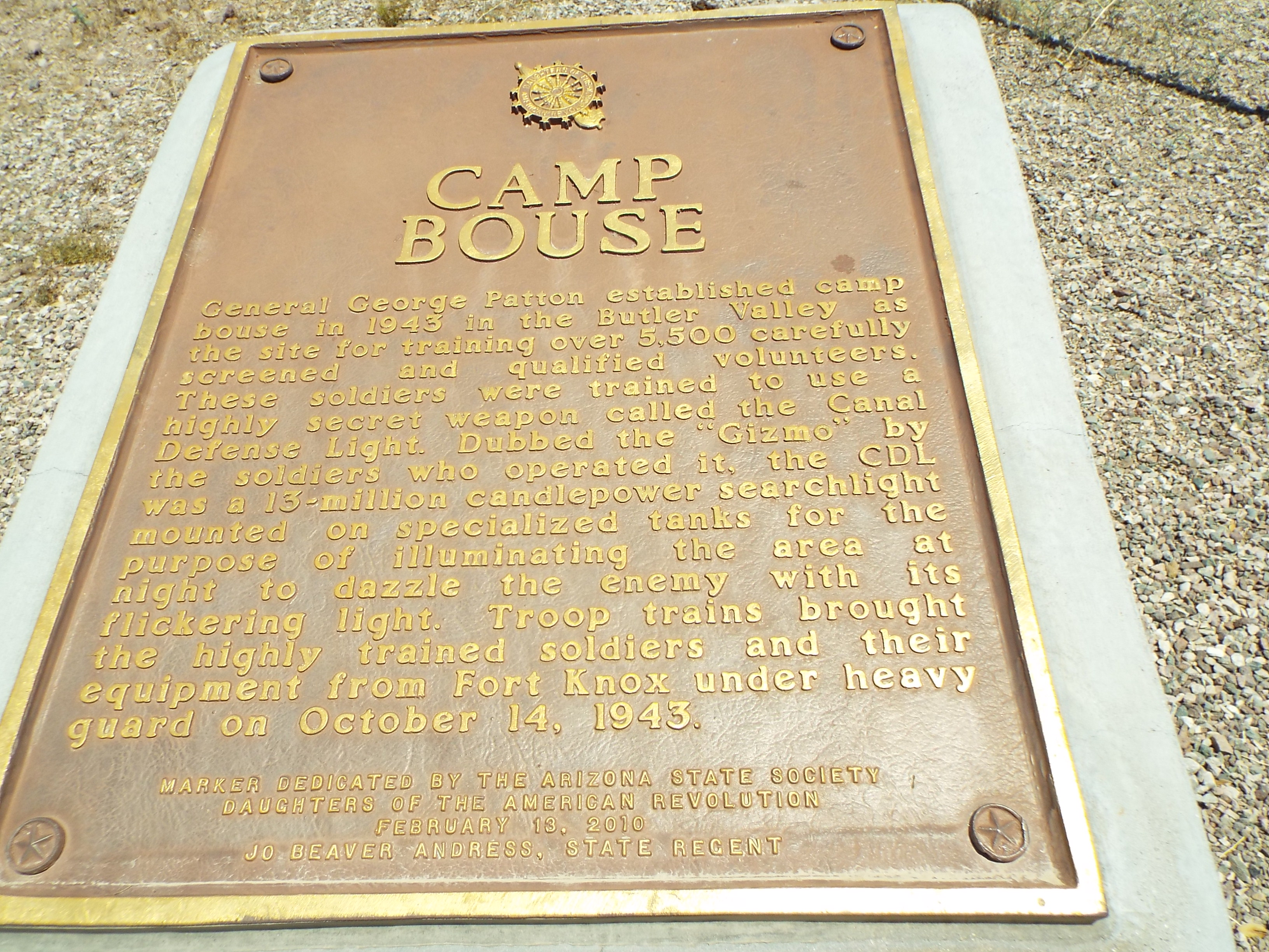 Camp Bouse memorial monument in Bouse, Arizona.